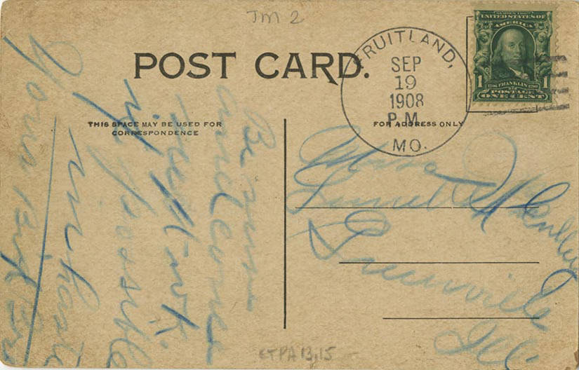 Postcard of an airship passing in front of the moon and dropping off a passenger.